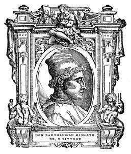 Illustratio from "Le Vite" by Giorgio Vasari, edition of 1568. For the artist portrayed see filename